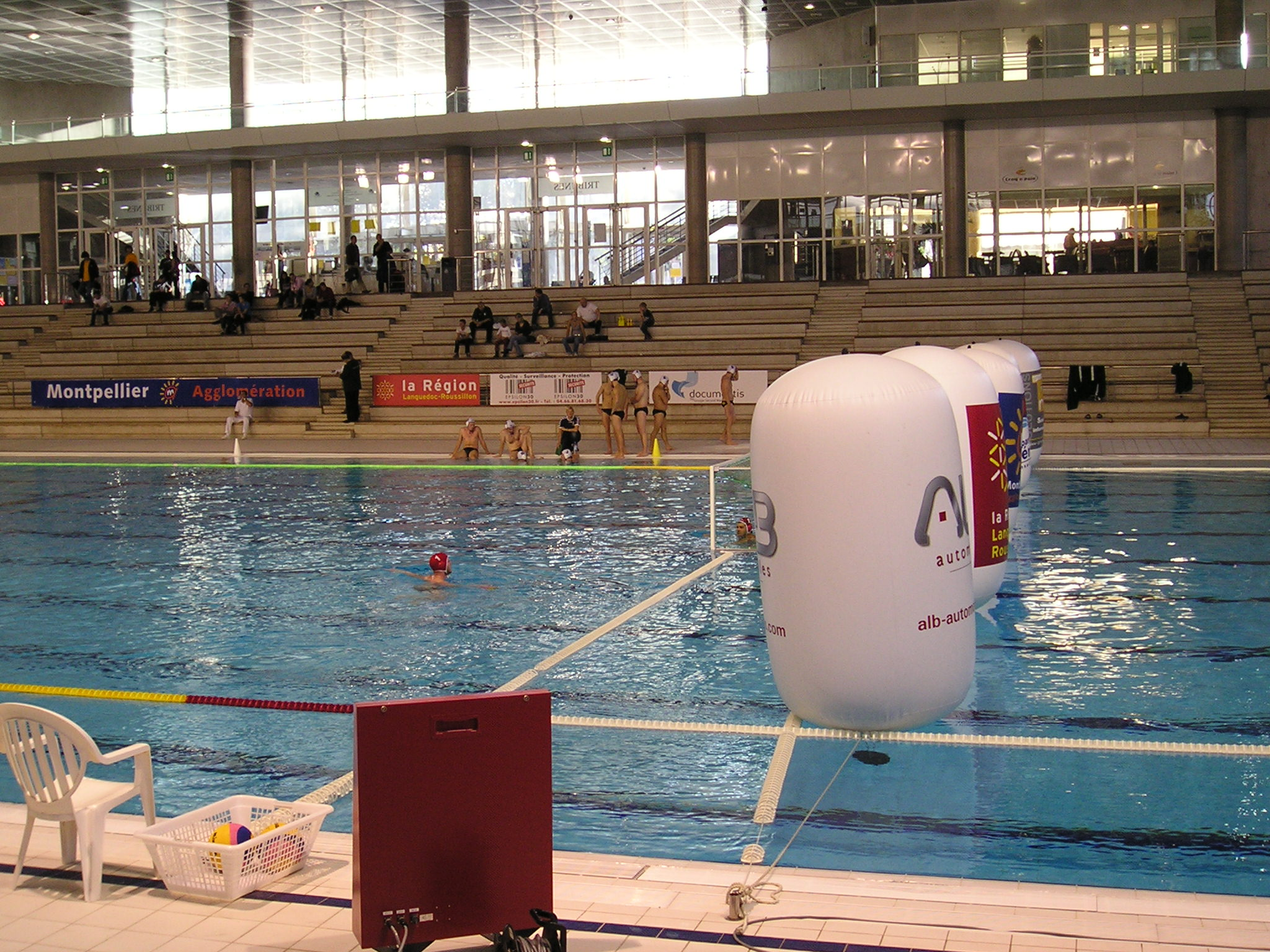 Montpellier, LEN Trophy first round, Odense vs. Budapest: half-time for Frem Odense while the two goalkeepers (red hat) are training. Here are visible the line judge's equipment: chair on the line, balls for restarting game quickly and the back of a chronometer.